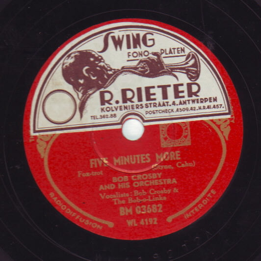 Bob Crosby & His Orchestra - Five Minutes More